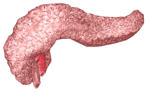 Organ available for use in the Human body diagrams